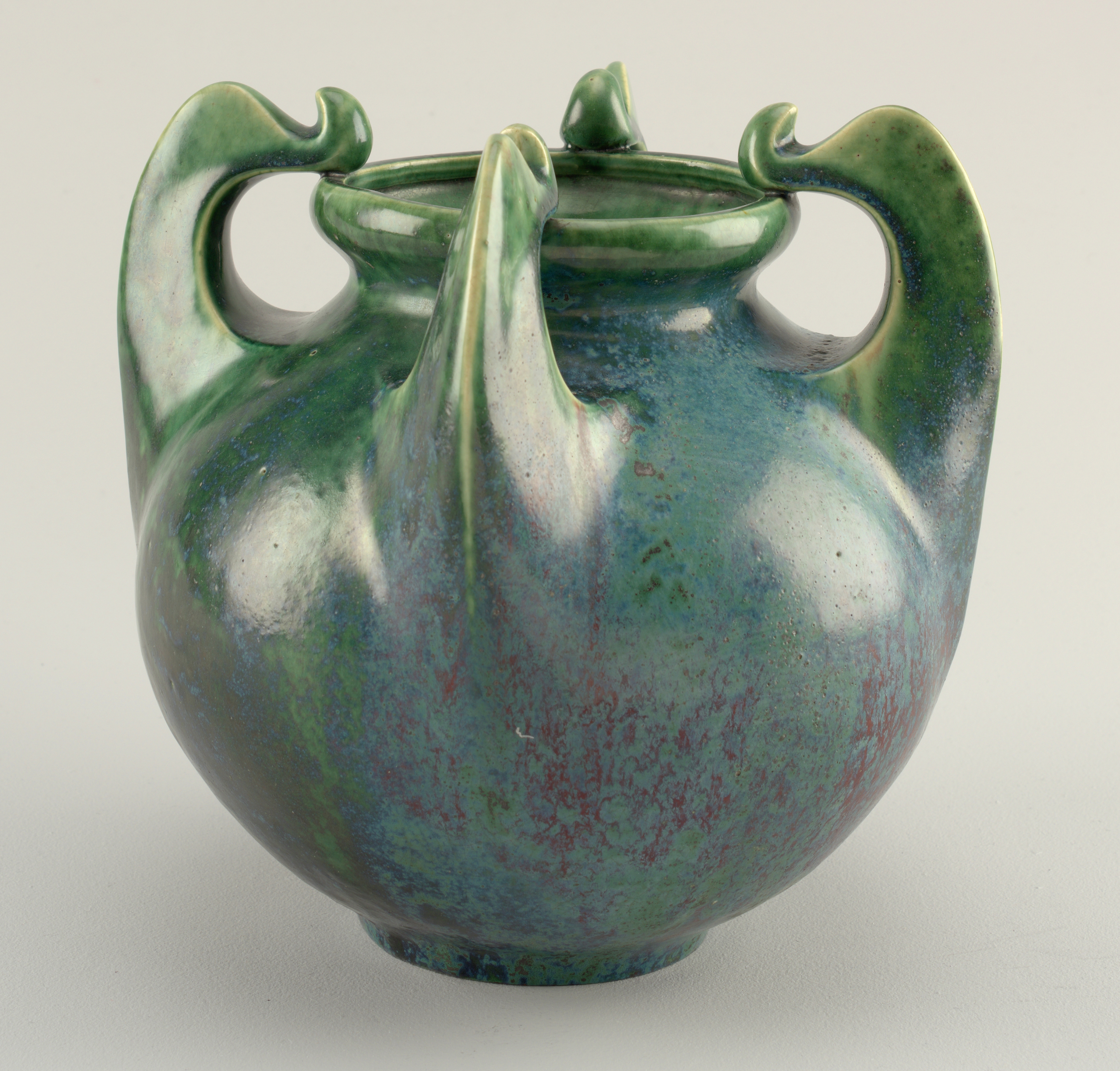 Bulbous form, with four regularly spaced, curved, handle-like protrusions that rise from vase shoulder, terminating on wide lip at top where they fold back on themselves at tips, assuming stylized whiplash forms; mottled blue-green and red flambé glaze applied to surface.